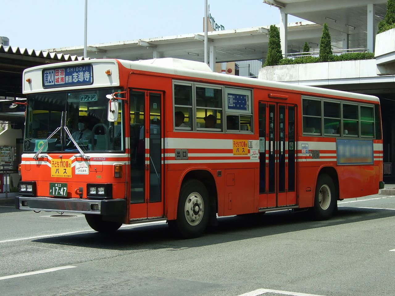 Company:Kumamoto Bus Use:transit bus Car license:熊22 か 1747 Chassis manufacturer:Hino Motors Coachbuilder:Nishinippon Shatai Kogyo Location:in Kumamoto Bus Terminal, Kumamoto City, Kumamoto, Japan.